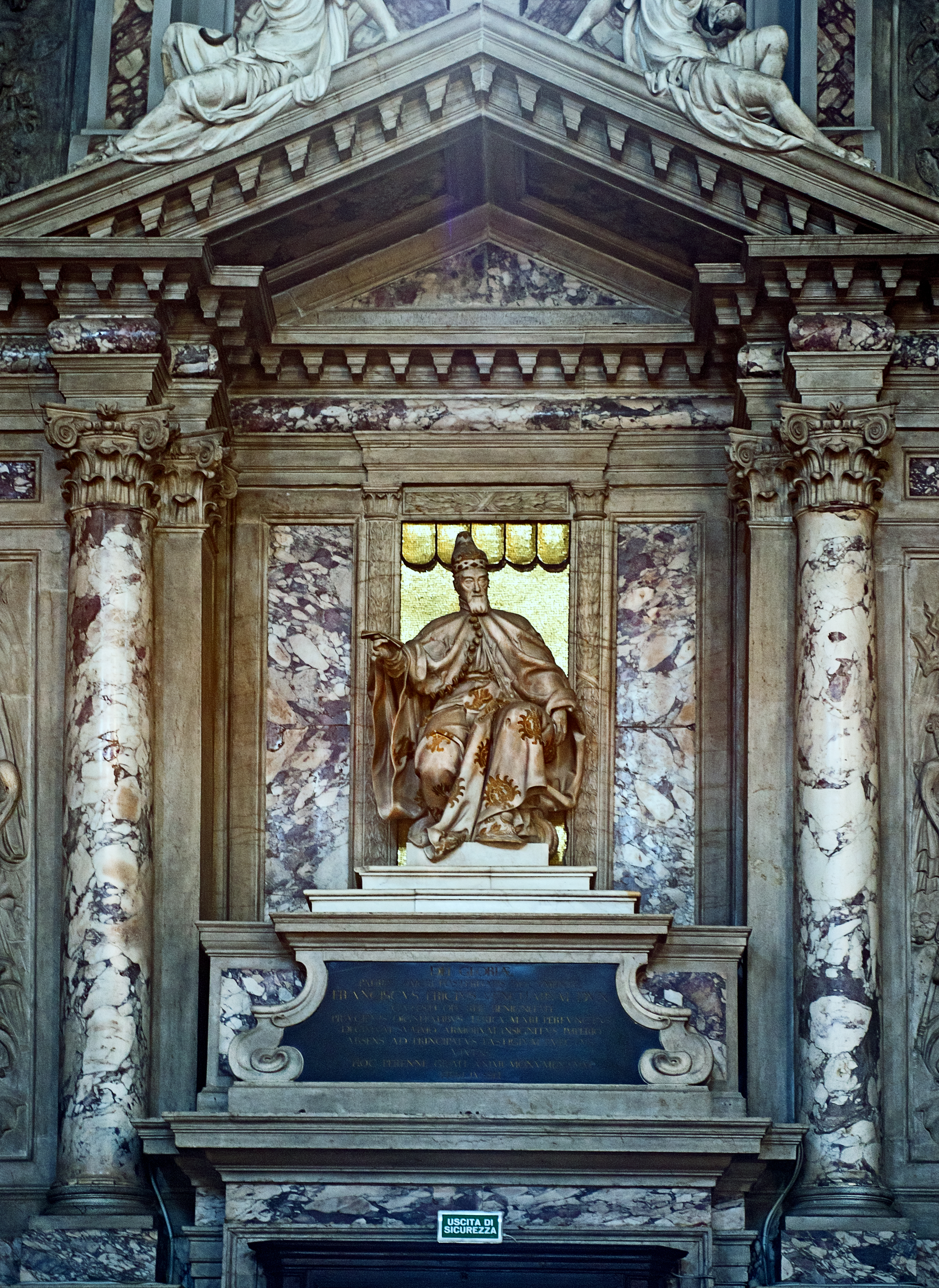 Church of San Martino Venice. Grave for the doge Francesco Erizzo (1633).